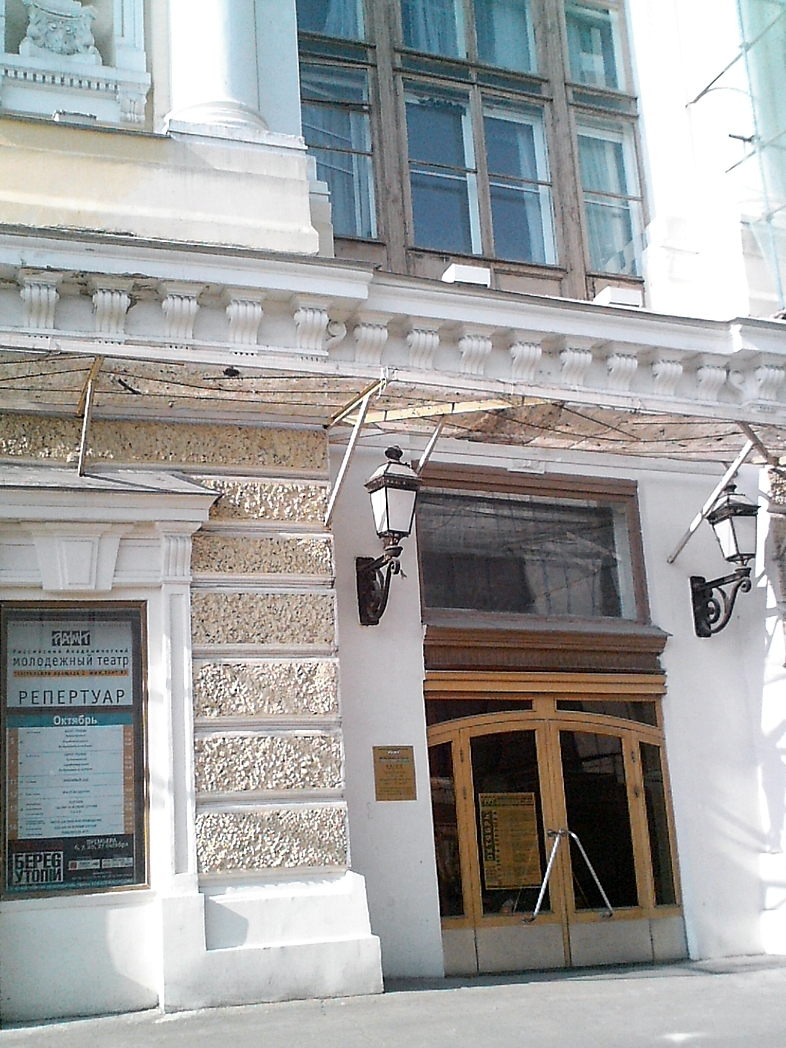 RAMT_Theatre_Moscow